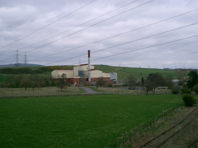 Westfield Biomass Plant.